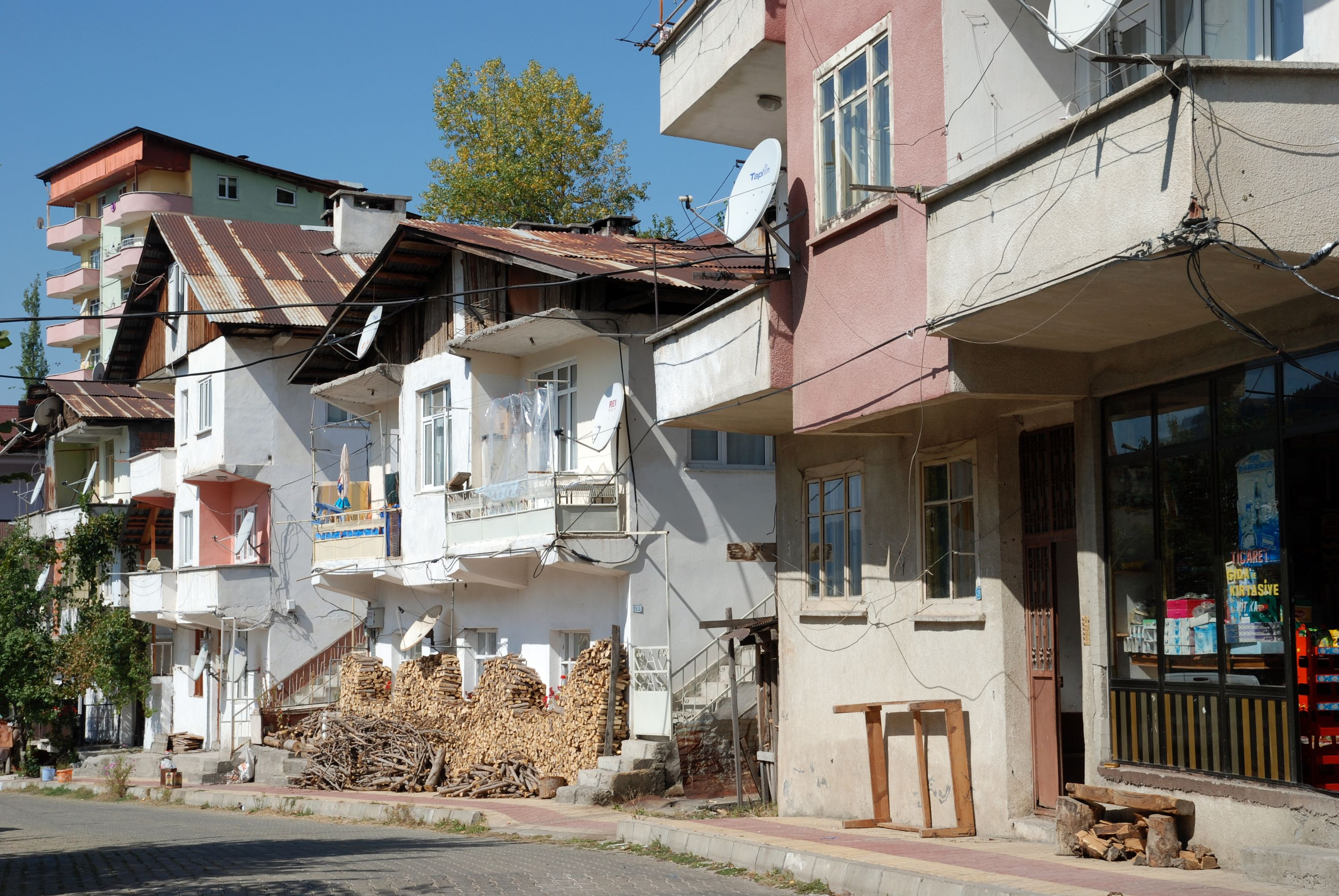 Şavşat, Artvin province